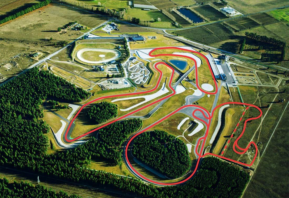 Arial view of Highlands Motorsport Park.